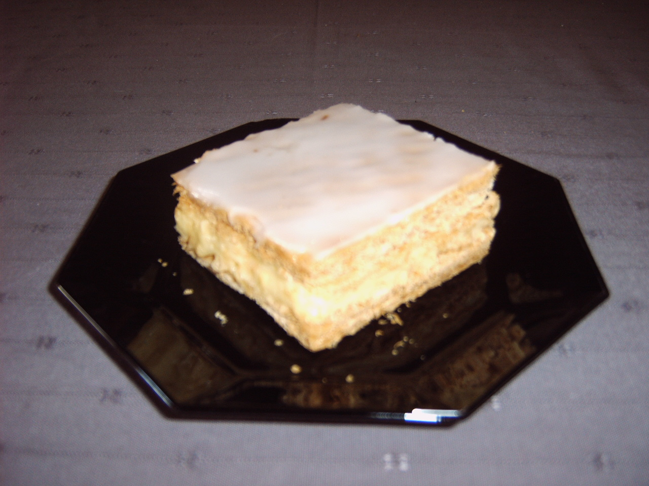 Tompouce as found in Belgium.